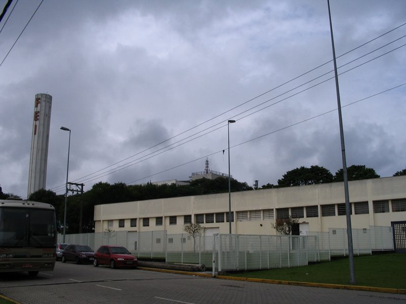 Front view from building of FEI University